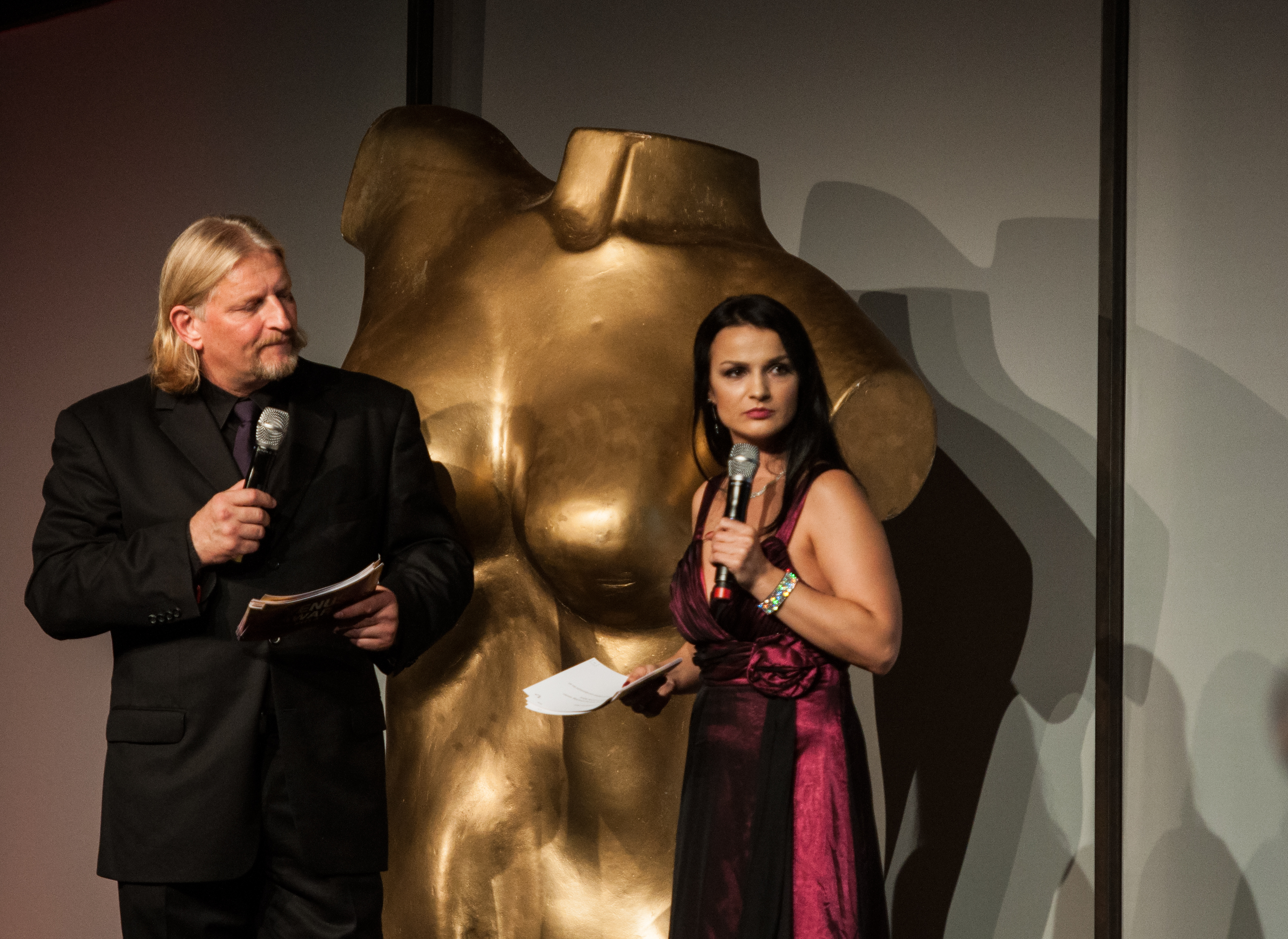 Actor Frank Kessler und VENUS Award winner Maria Mia at the ceremony of the Venus Awards 2014, Berlin